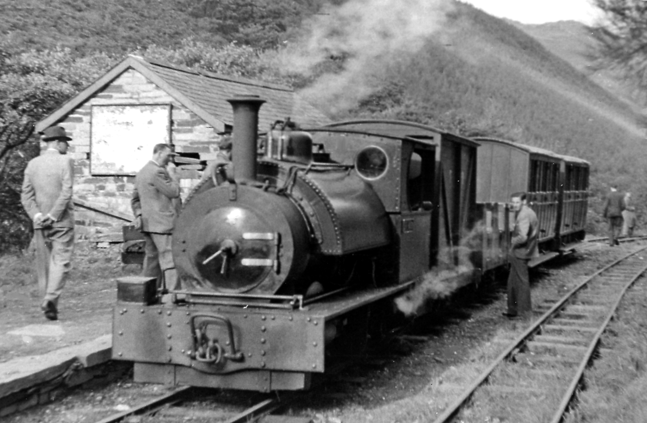 Abergynolwyn station, Talyllyn Railway with train, 1953. View NE, at the upper terminus at the time of the TR narrow-gauge line to Towyn. The train about to go down the valley is headed by 0-4-2T No. 3 'Sir Haydn' (ex-Corris Railway).